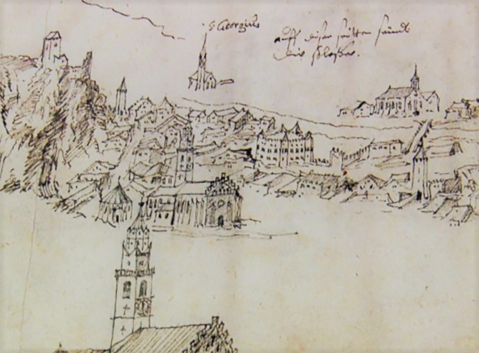 Meran sketch of the early 17th century from the Brandis Codex